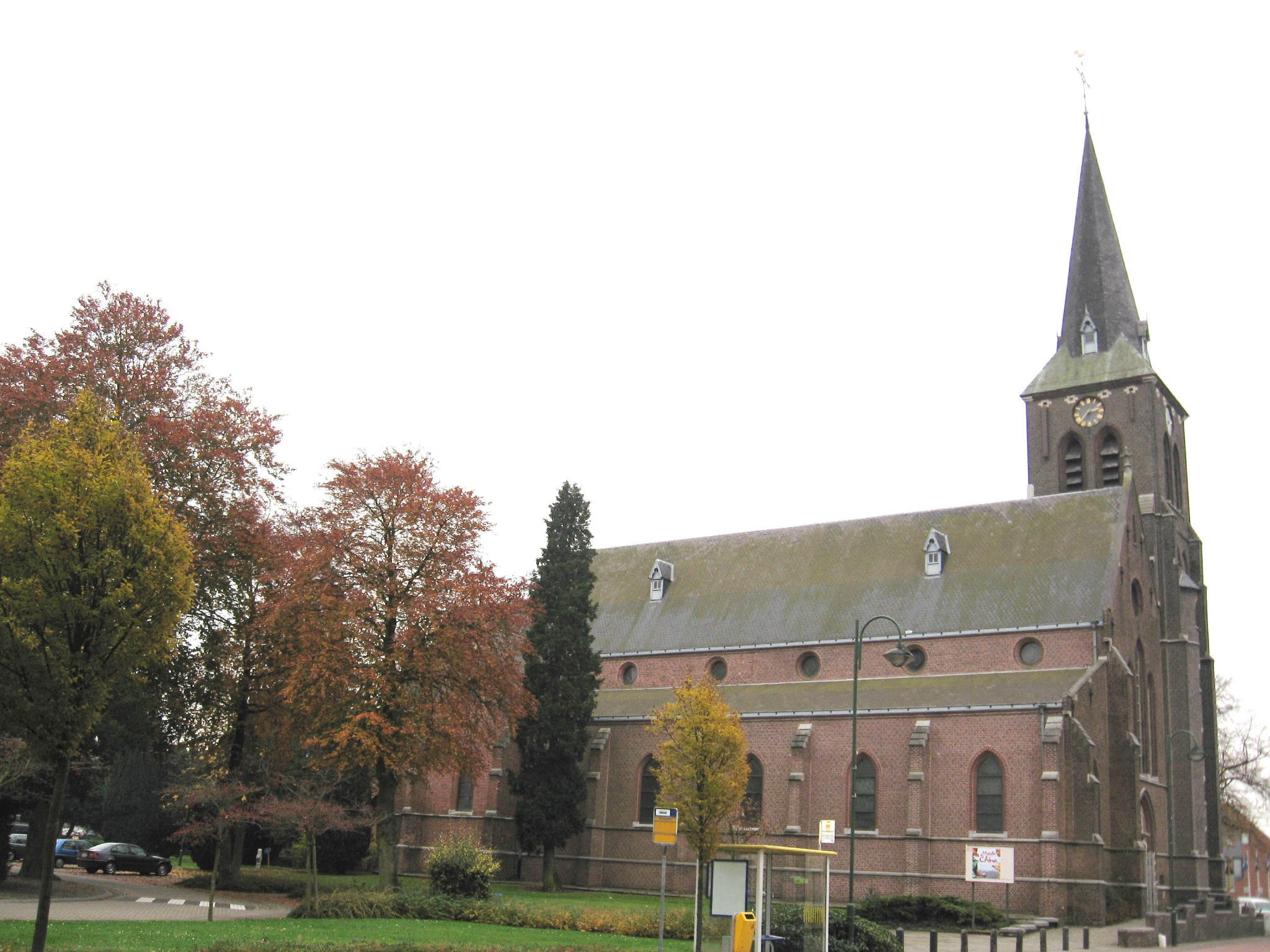 Church of Saint Monulph and Gondulph in Achel, Hamont-Achel, Limburg, Belgium